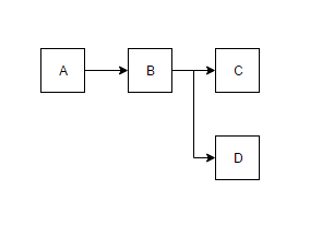 Control Flow across the basic blocks